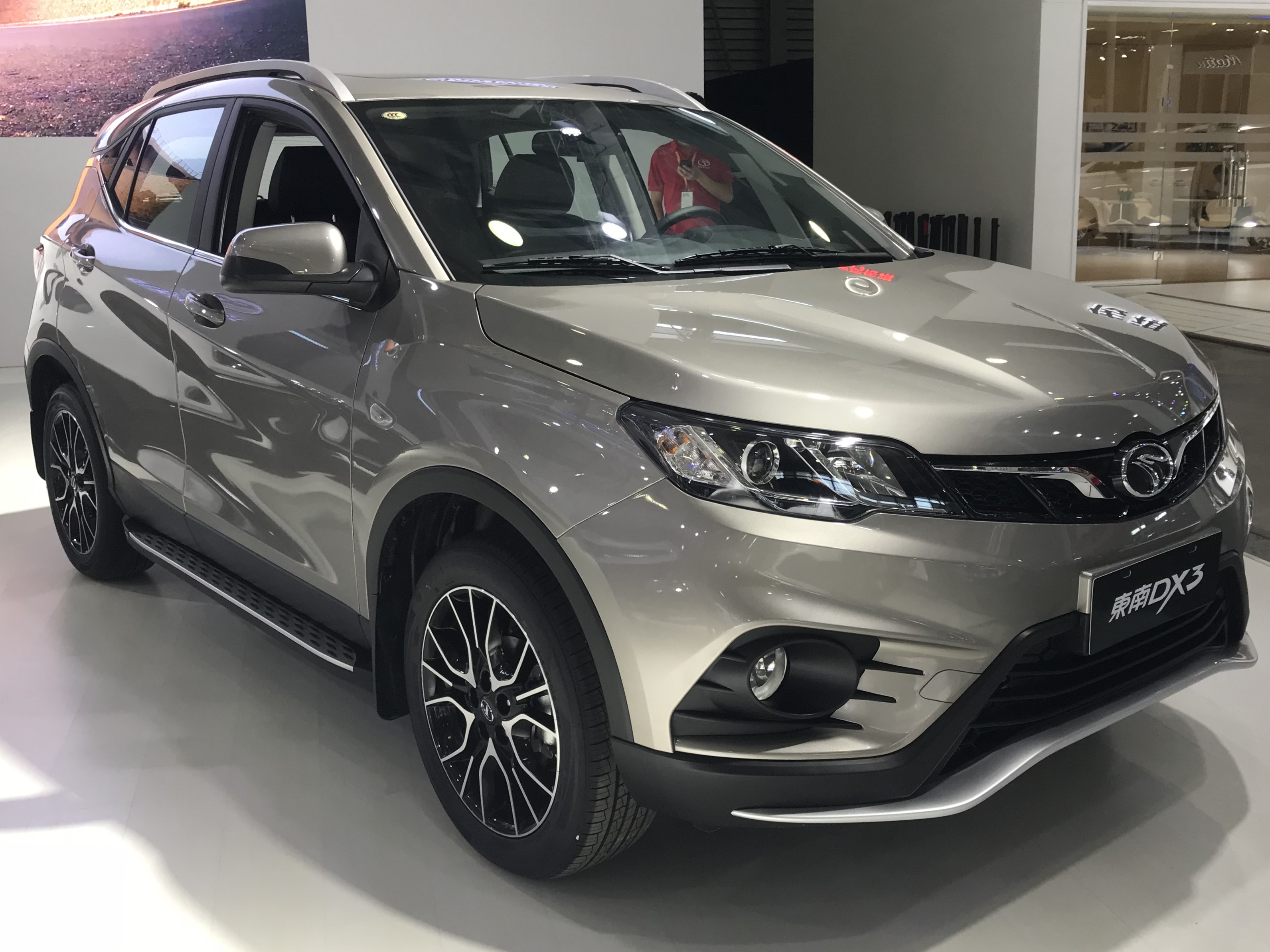 Soueast DX3 front